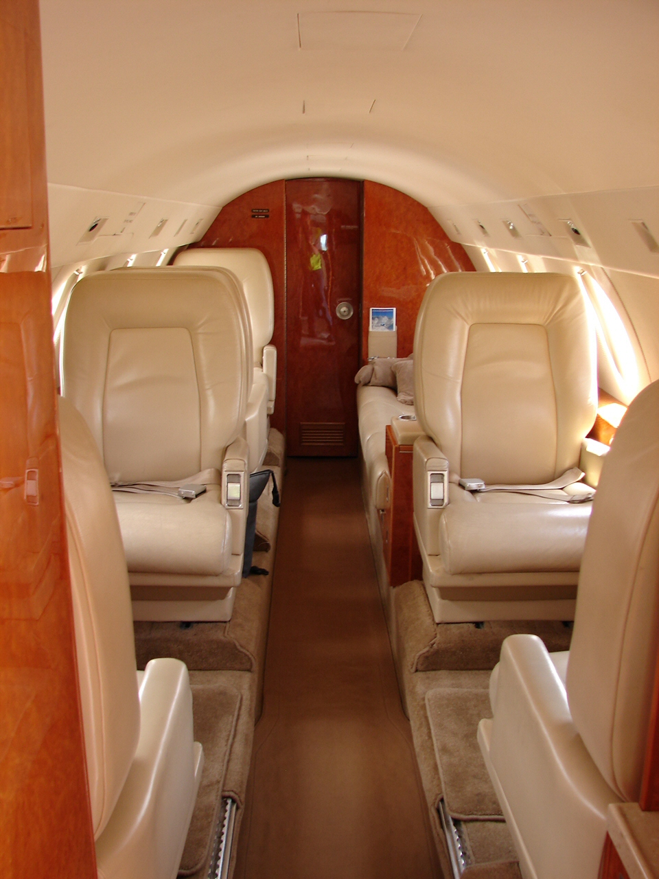 The Dassault Falcon 20